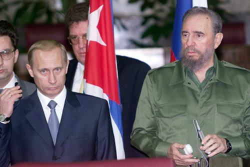 HAVANA. A news conference with Russian President Vladimir Putin and Cuban leader Fidel Castro.